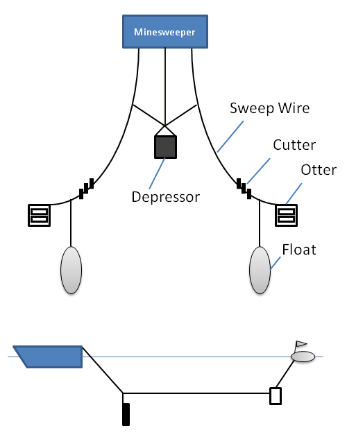 A scheme of the Oropesa type mechanical sweep systems.